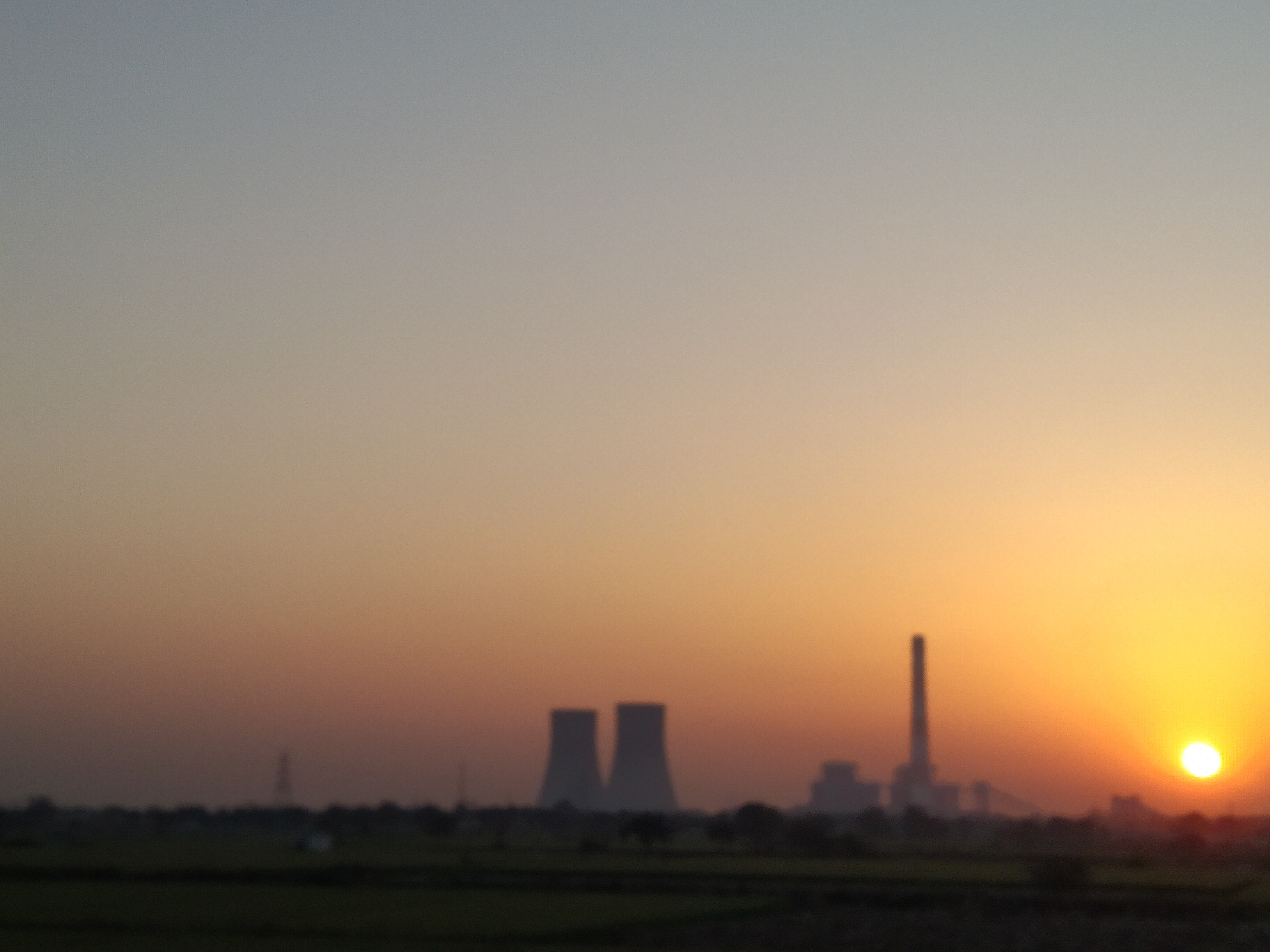 Thermal power plant, Barwala ,Hisar, Haryana, India